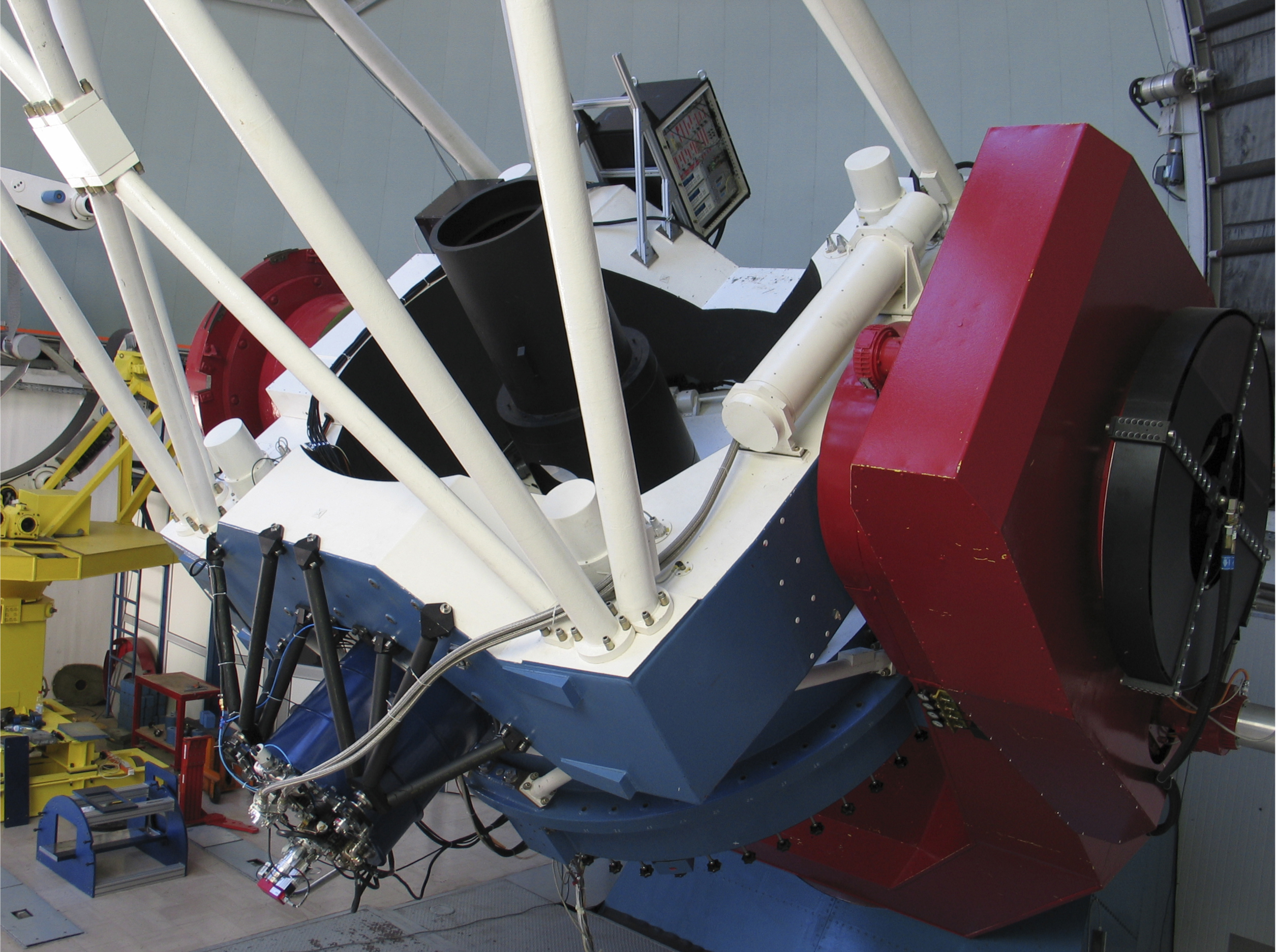 The GROND instrument installed at the 2.2-m MPI/ESO Telescope at the La Silla Observatory. GROND takes images of the same region of the sky in 7 different filters. The field of view in the near-infrared is 10 times 10 arcminutes, or 1/7th the area of the Full Moon. It is smaller in the visible, slightly above 5 x 5 arcmin. It will be mostly used to determine distances of gamma-ray bursts. Because the 2.2-m telescope already hosts FEROS and WFI, it was necessary to install GROND in a Coude-like position.